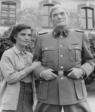 Publicity photo of Olga Karlatos & Gregory Peck taken for TV film The Scarlet and the Black (1983). See also film still. No copyright notice.